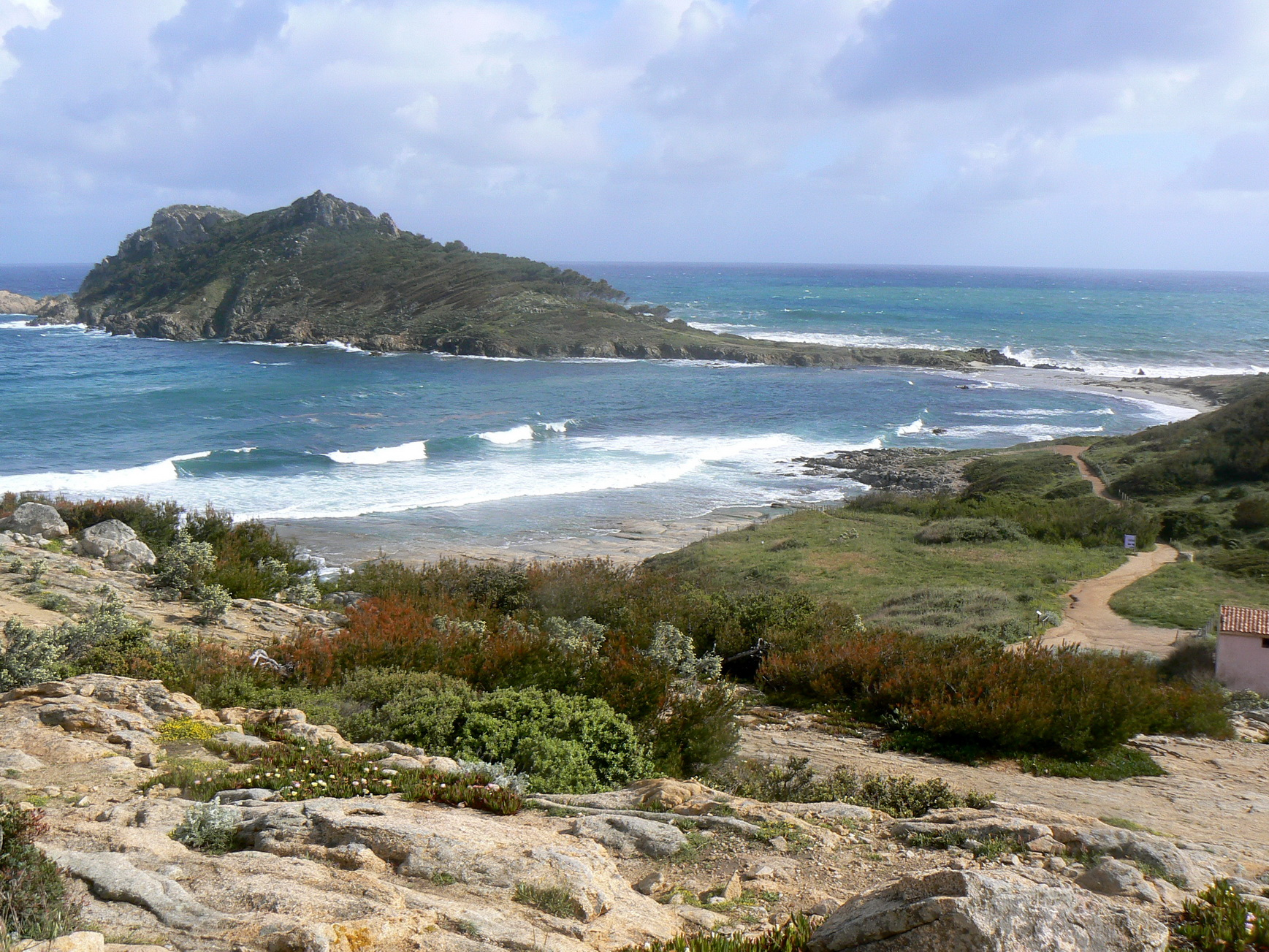 Cap Taillat, Var (France), as seen from the Point de la Douane